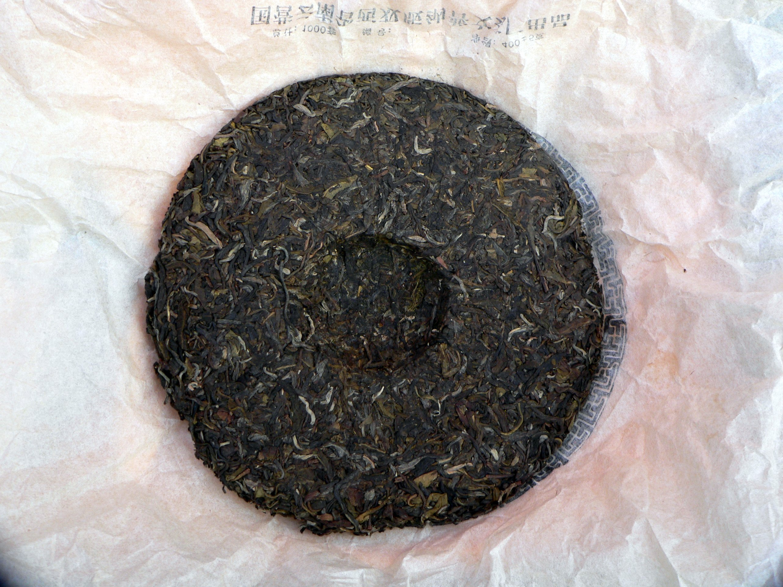 Pu-erh tea